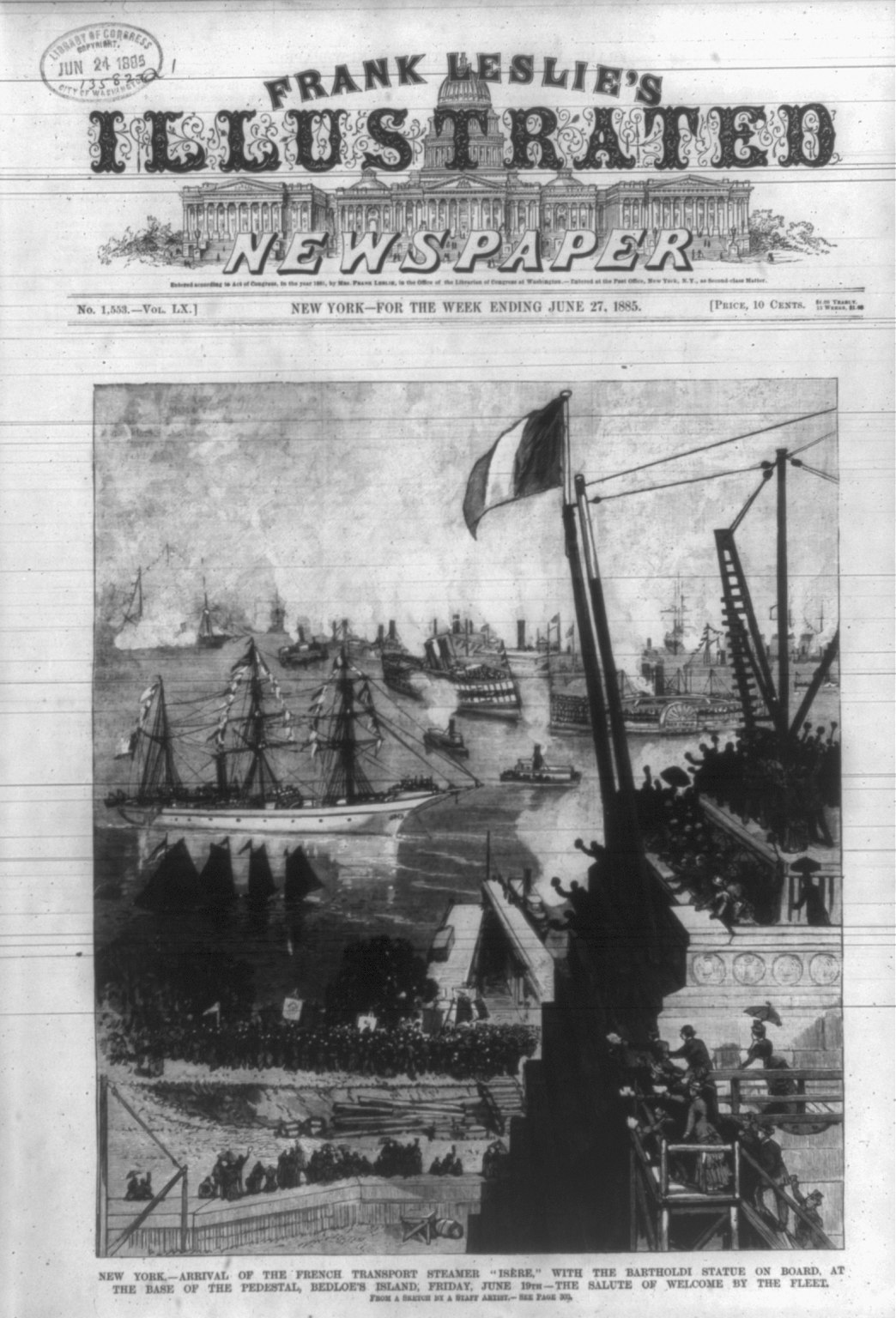 Title: New York - arrival of the French transport steamer Isere with the Bartholdi statue on board, at the base of the pedestal, Bedloe's Island, Friday, June 19th - the salute of welcome by the fleet Abstract/medium: 1 print : wood engraving.